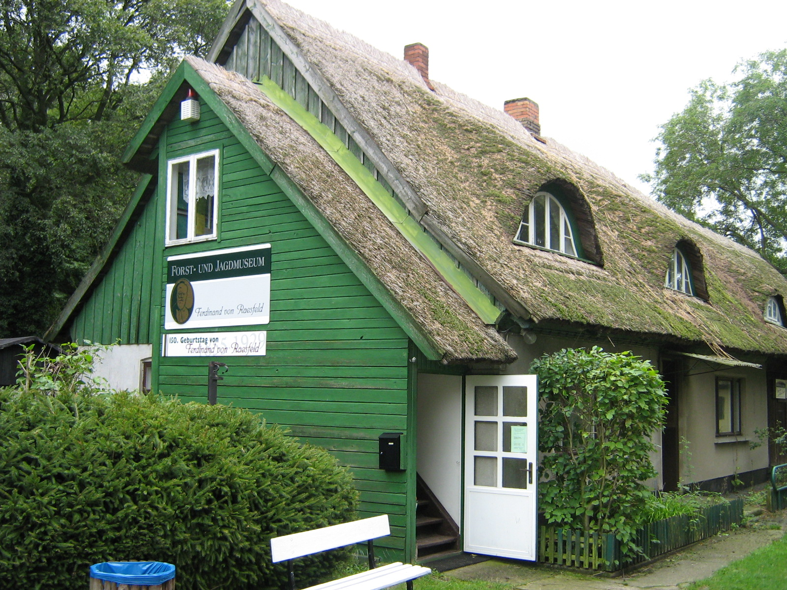 The Ferdinand von Raesfeld Forestry and Hunting Museum (Forst- und Jagdmuseum Ferdinand von Raesfeld) in Born a. Darß, Landkreis Vorpommern-Rügen, Mecklenburg-Vorpommern, Germany. The building belongs to the former Forester's Lodge (Oberförsterei), 64 Causeway Street (Chausseestraße 64).